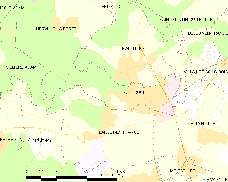 Map of French municipality Montsoult